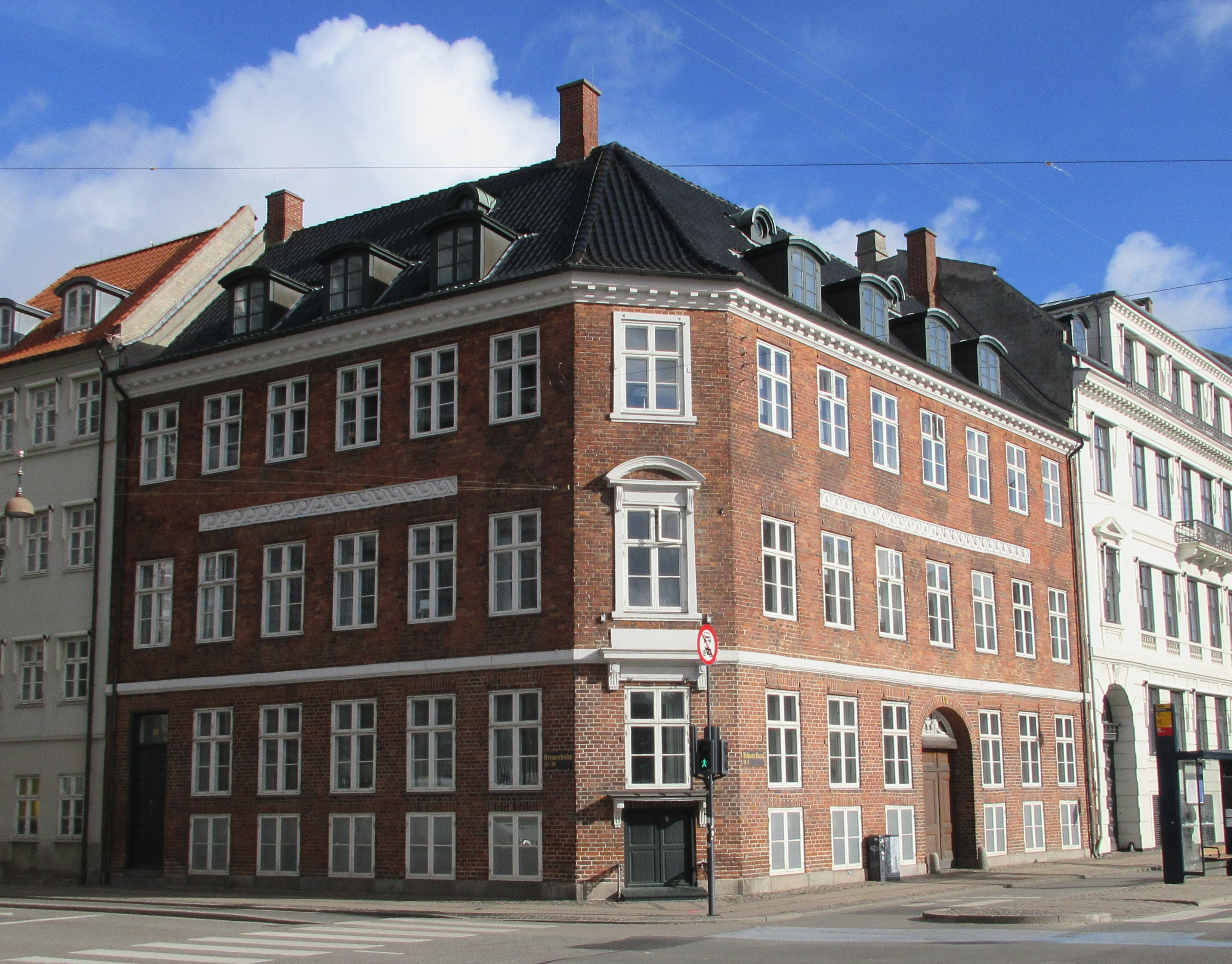 Skipperforeningen's former building at Bremerholm/Holmens Kanal in Copenhagen, Denmark